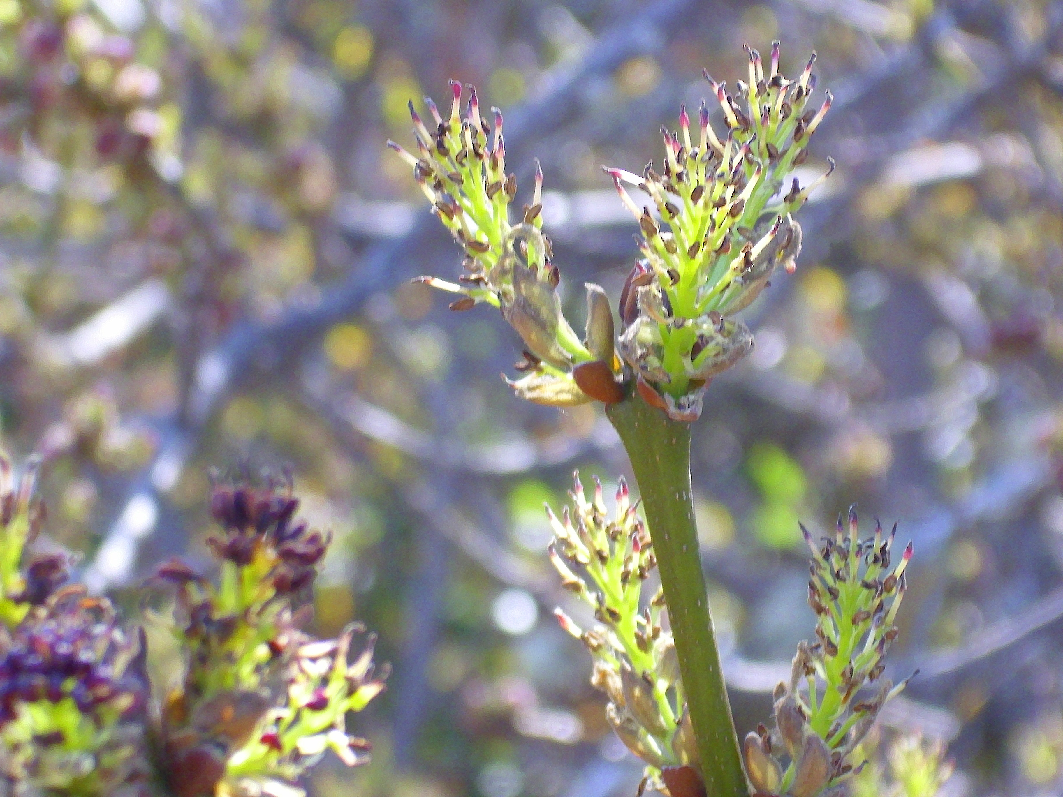 Fraxinus angustifolia inflorescence, Sierra Madrona, Spain